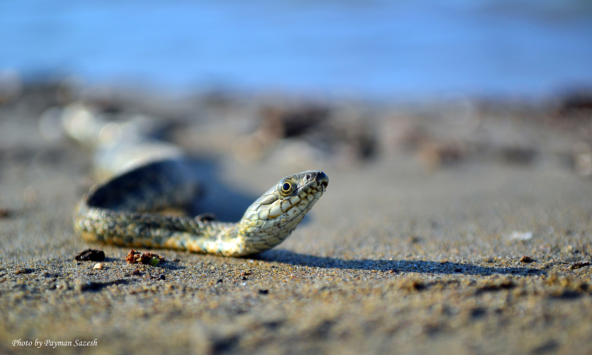 Natrix tessellata observed along shore of Caspian Sea in Northern Iran